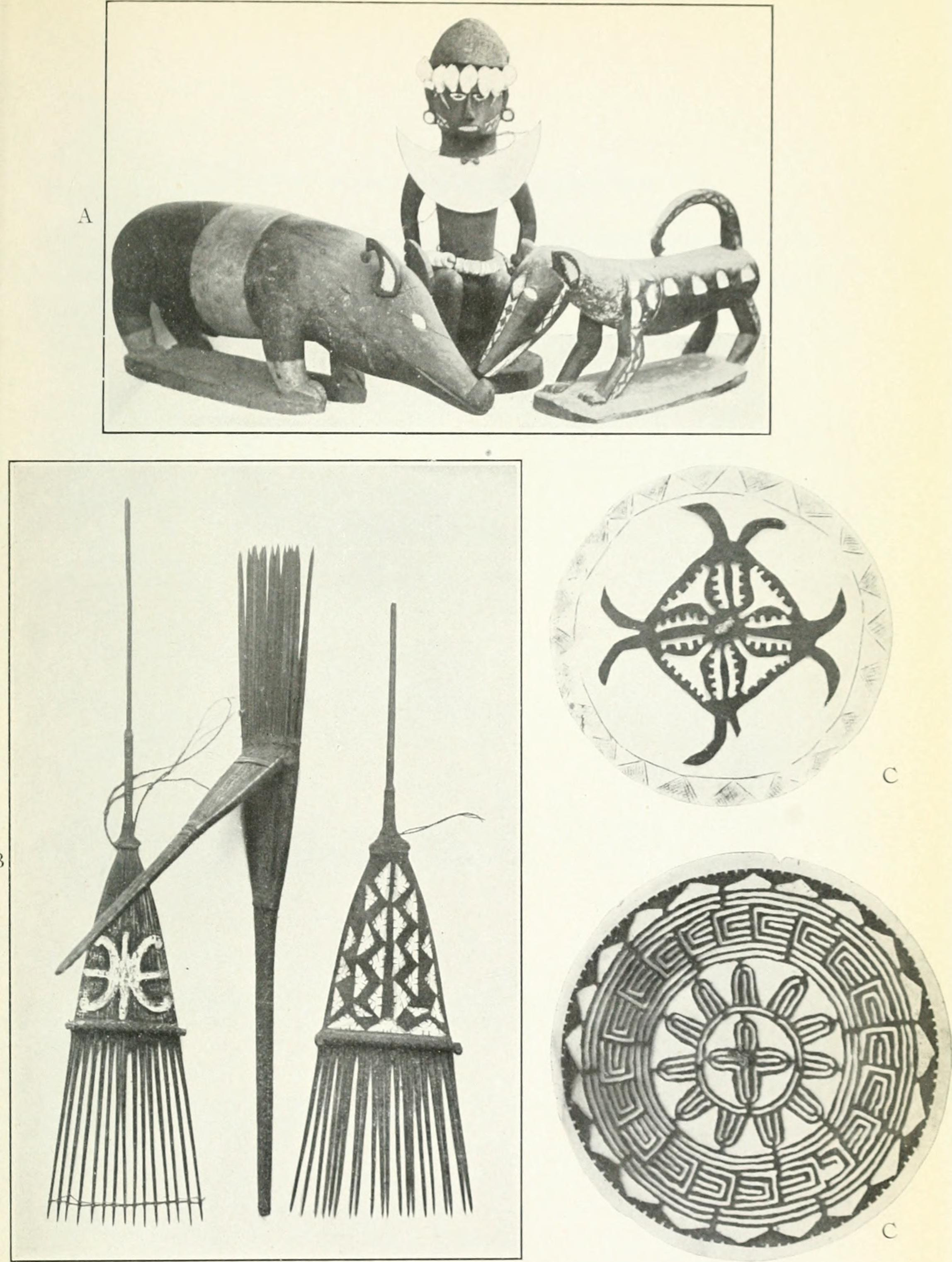 Title: Dictionary and grammar of the language of Saa and Ulawa, Solomon islands Year: 1918 (1910s) Authors: Ivens, Walter G. (Walter George), b. 1871 Subjects: Saa language Ulawa language Missions -- Melanesia Melanesian languages Melanesia Publisher: Washington : Carnegie institution of Washington Text Appearing Before Image: o ni;.\s in.ATE 6 Text Appearing After Image: A. Carvings from L lawa Man, Pig, and Dog. B. Ulawa Hair-combs. C C. Forehead Ornaments made of Clam and Turtle Shell, Florida. I YENS PLATE